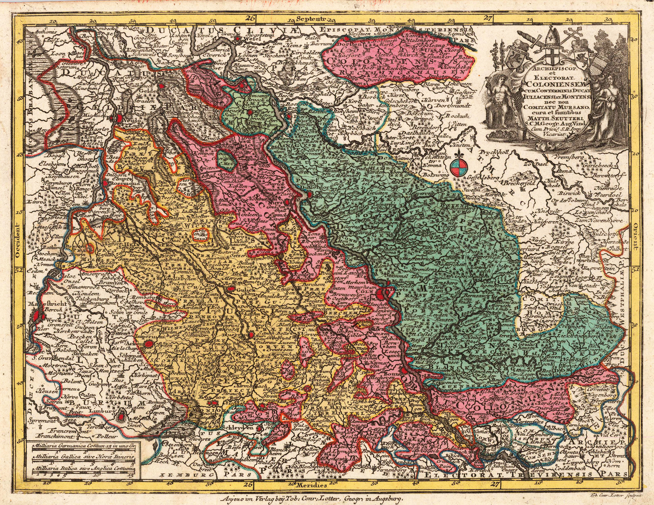 Map showing the Electorate of Cologne (in pink) flanked by the Duchy of Jülich (in yellow) and the Duchy of Berg (in aqua). The western limits of the Duchy of Westphalia, which also belonged to the Electorate, are outlined in orange on the far right. Published by Matthäus Seutter in 1756.